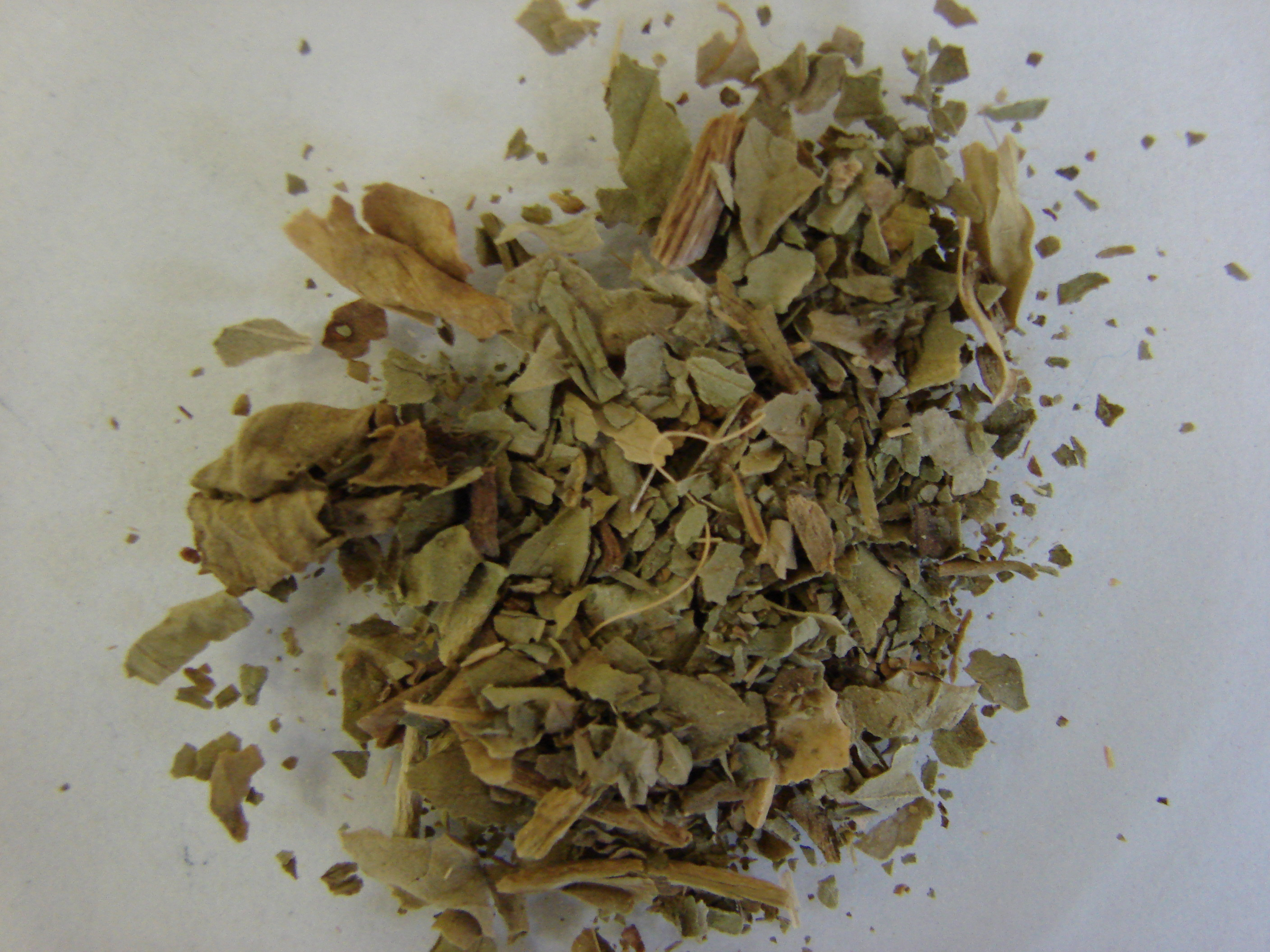 Menyanthidis folium, Menyanthes trifoliata